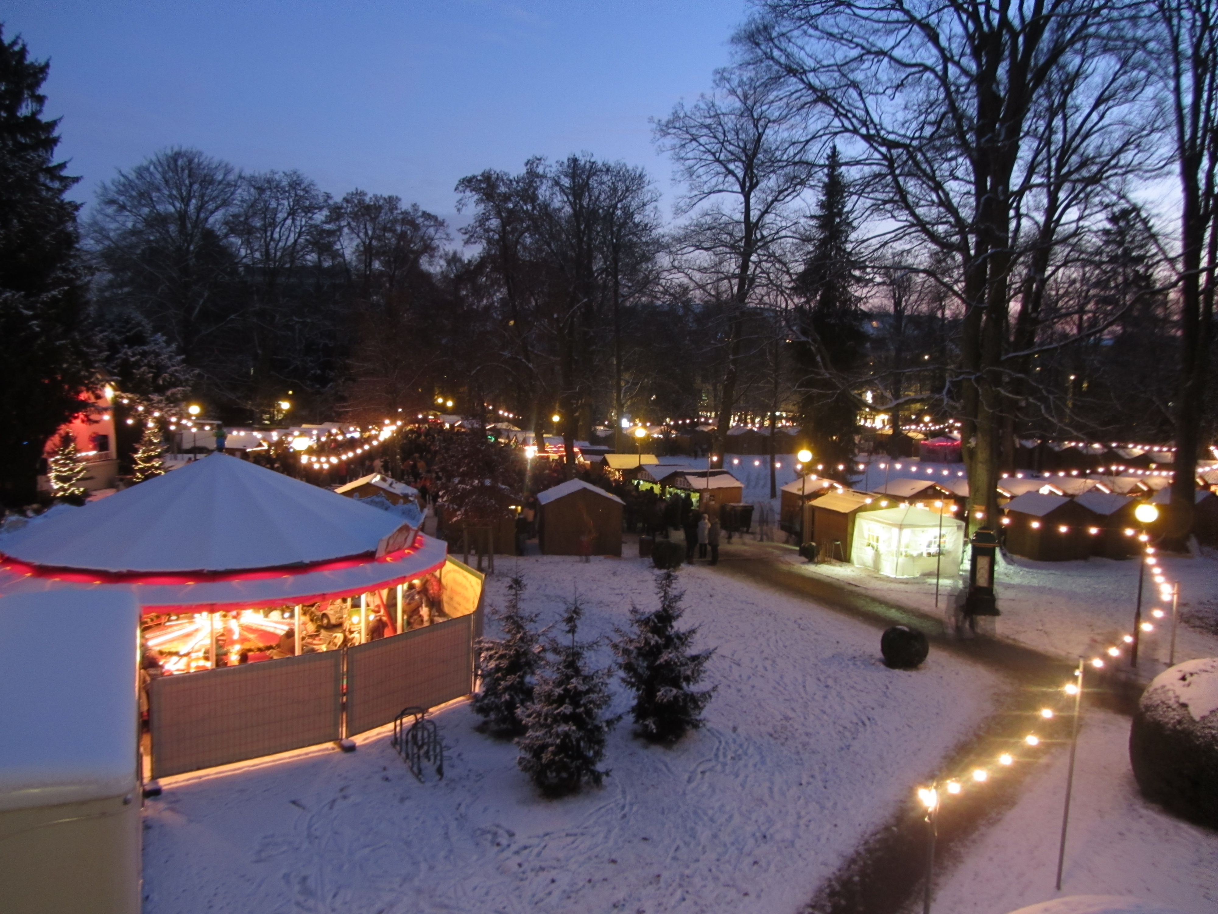 The Christmas market in Bad Soden am Taunus